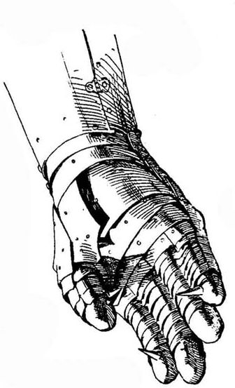 battle-gauntlet